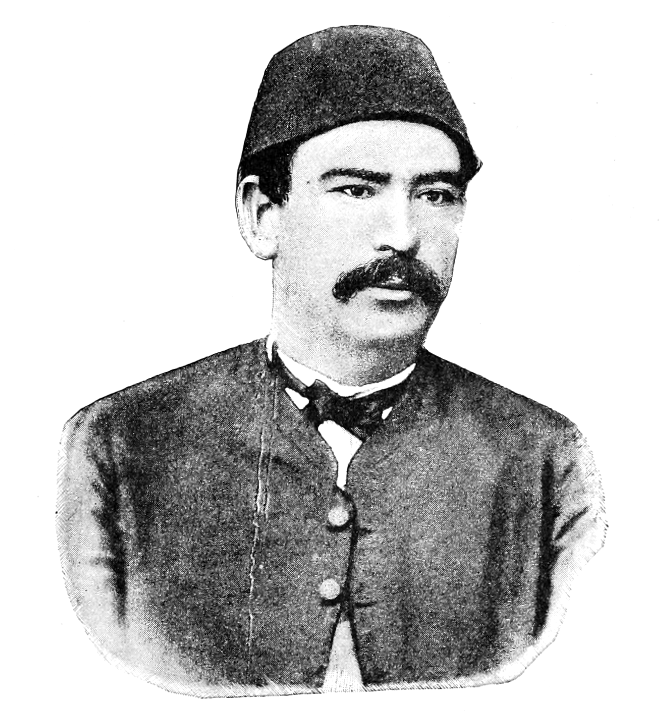 Ismail Pascha Aiyub, governor-general of the Sudan 1875–1877